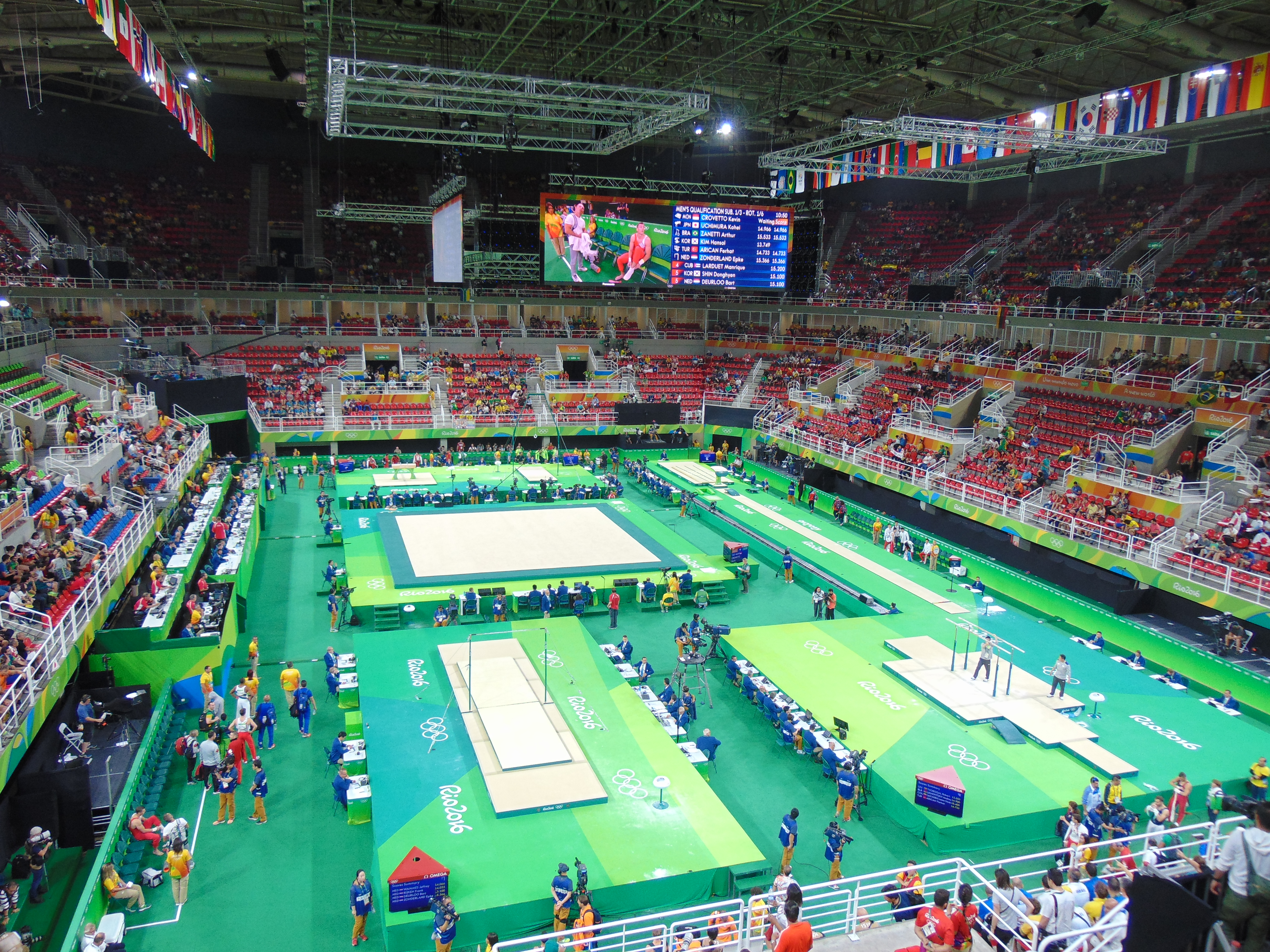 Rio 2016: Artistic gymnastics - men's qualification